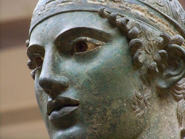 The detail in this bronze sculpture is exquisite.